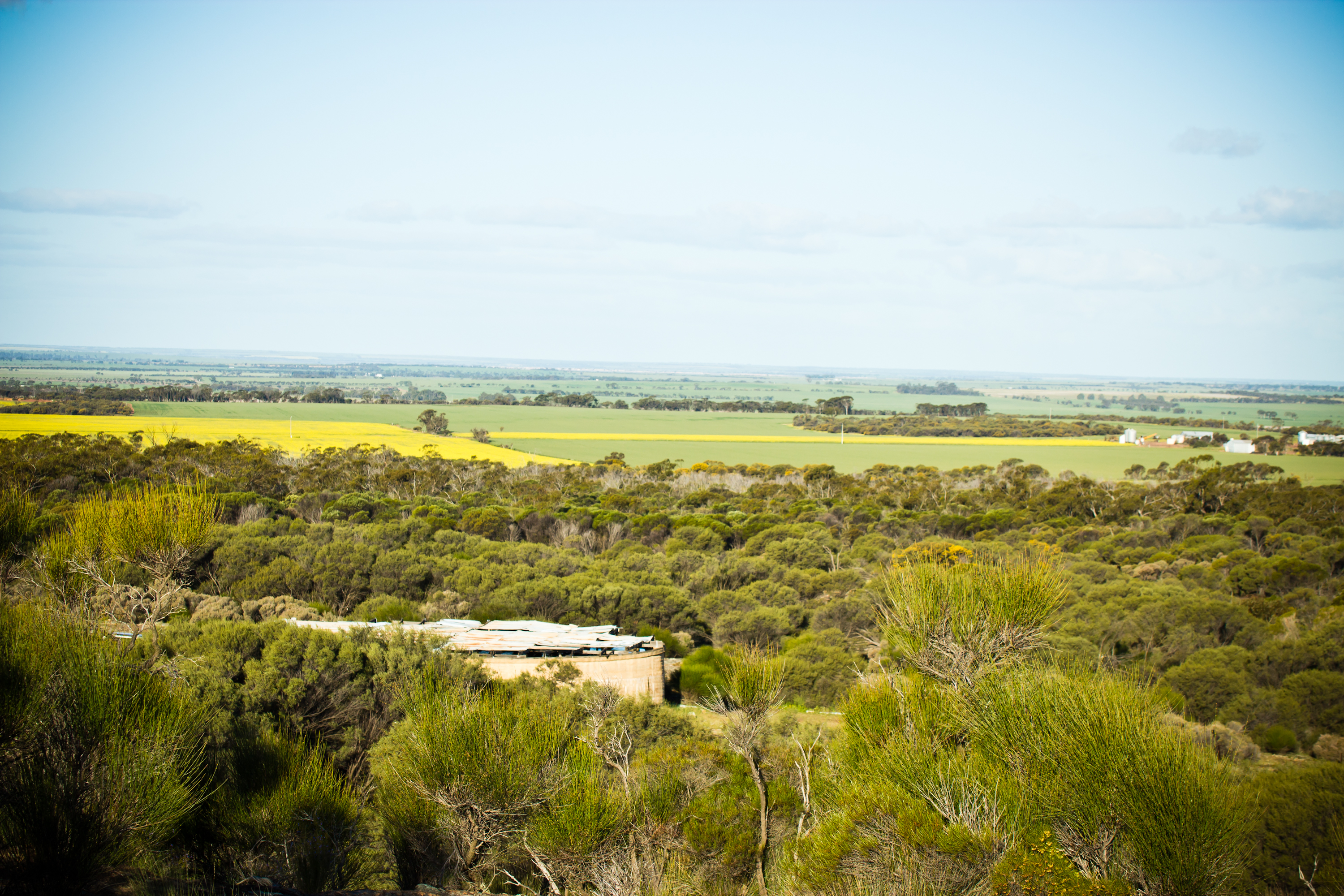 View from near the top of Xantippe Rock in Xantippe Nature Reserve near the town of Dalwallinu in Western Australia.